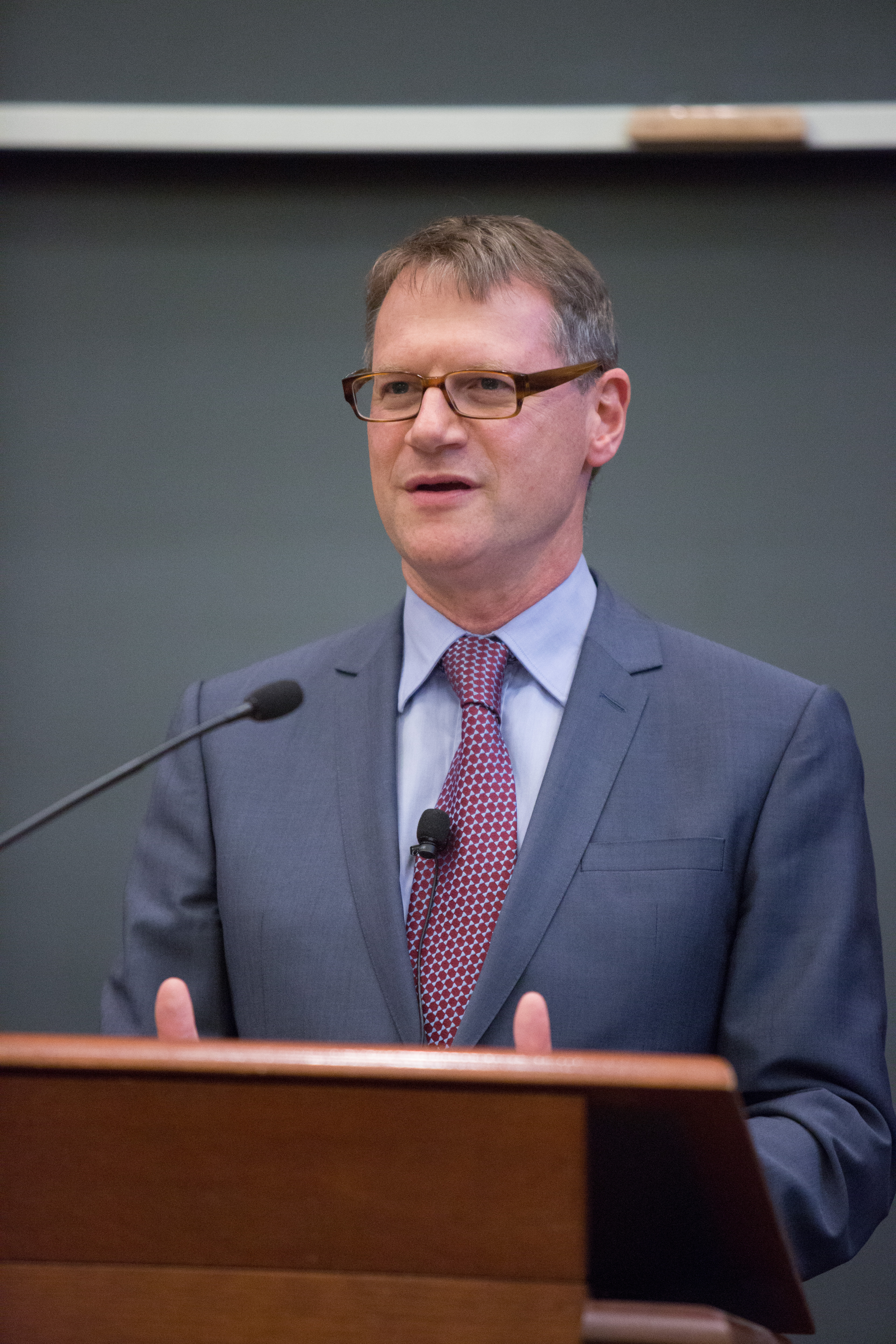 Jonathan Wolff Lecture at HarvardEthics